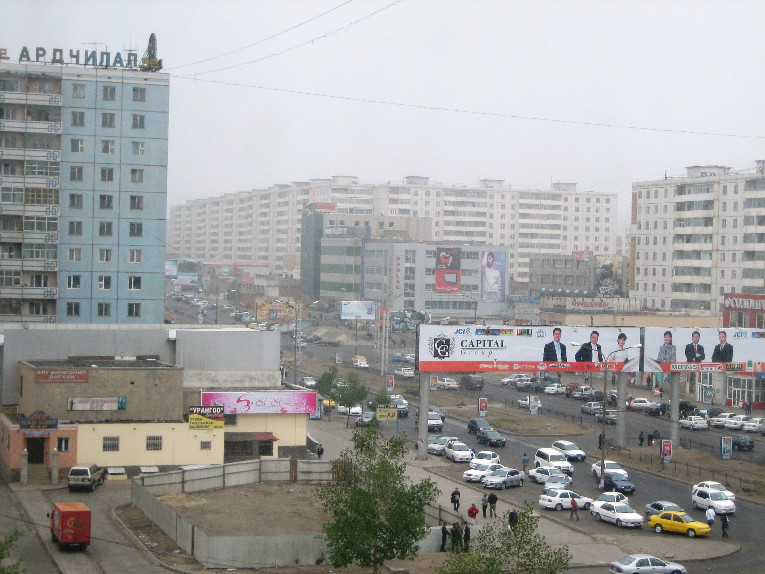 Photo of Bayangol District in UB